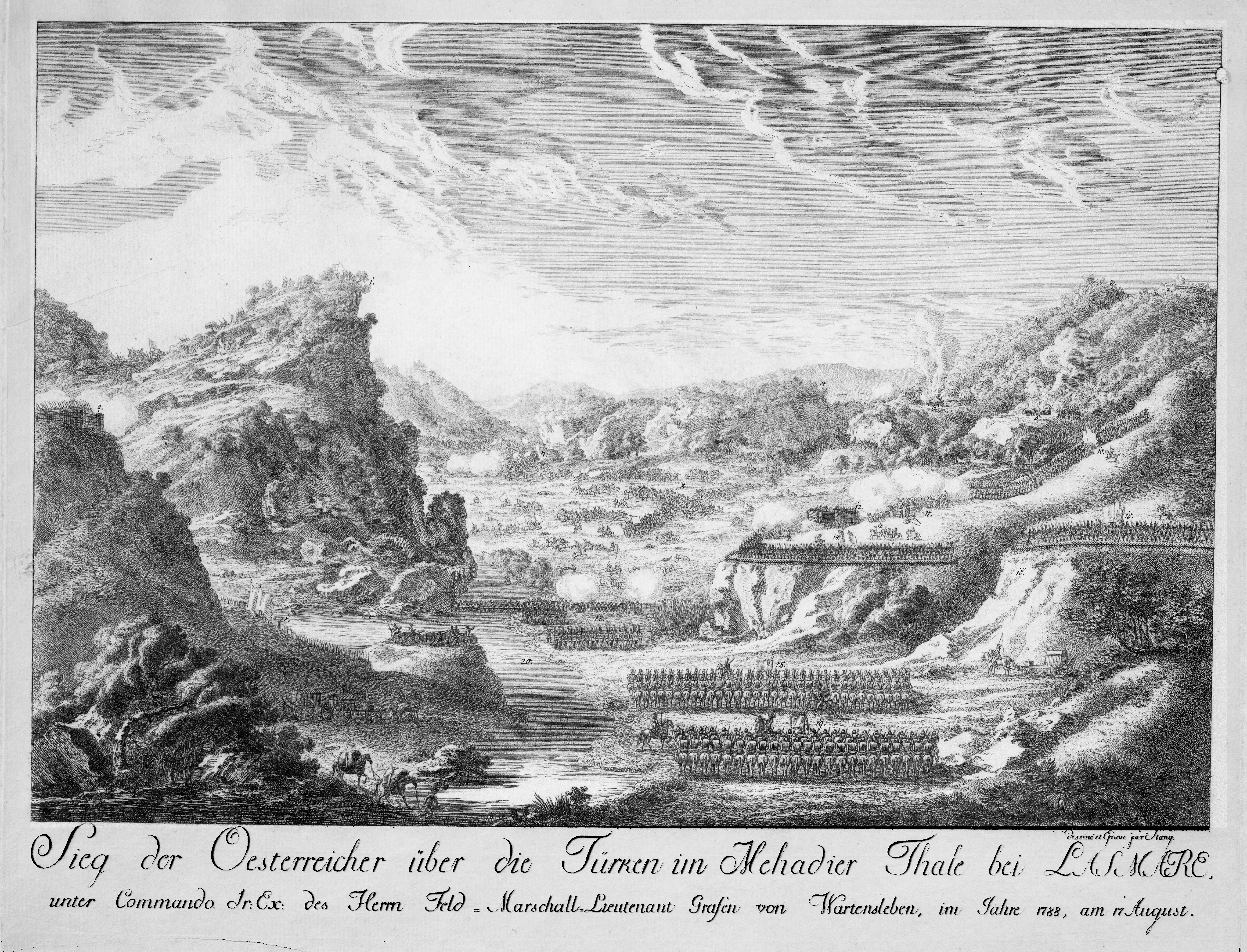 Graf von Wartensleben on Mehadia valley Stang, "Sieg der Oesterreicher über die Türken im Mehadin Thale bei Lasmare... im Jahre 1788" (1788). Prints, Drawings and Watercolors from the Anne S.K. Brown Military Collection. Brown Digital Repository. Brown University Library.